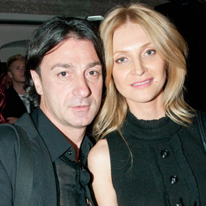 Эвклид Кюрдзидис со спутницей на вечеринке программы "Пусть говорят"